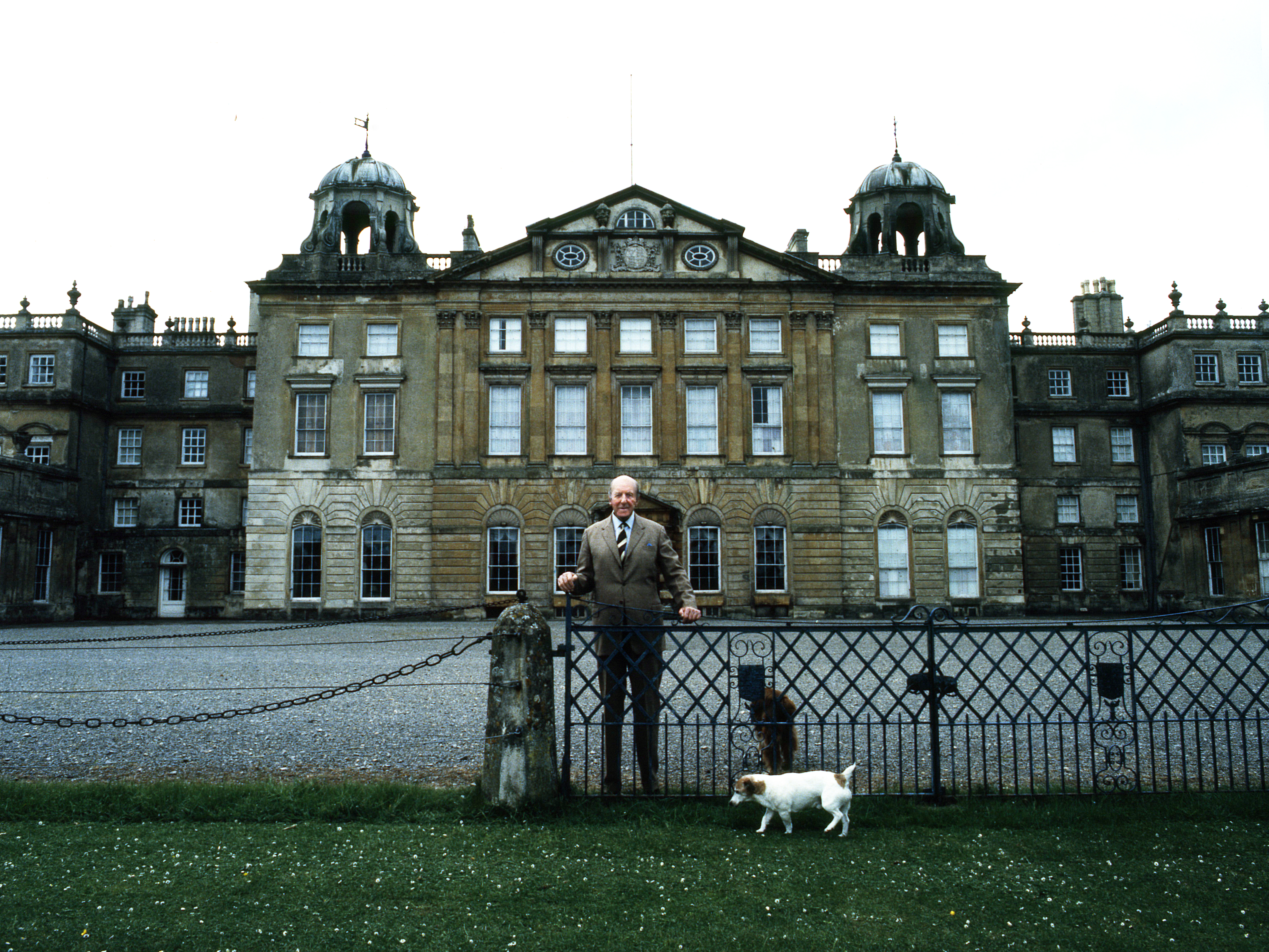 The 10th Duke of Beaufort outside Badminton House.